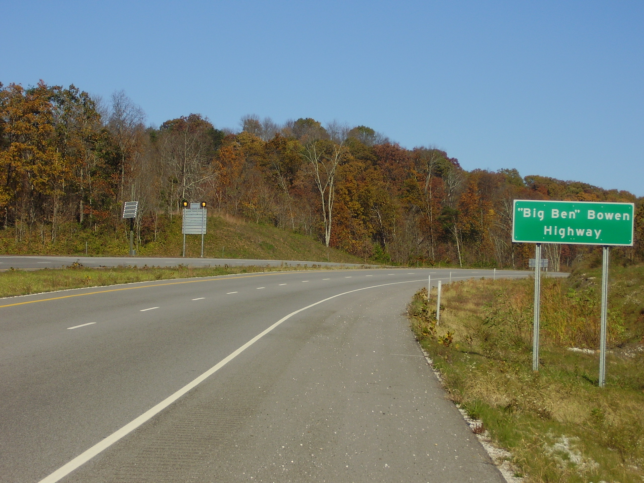 Photo of West Virginia Route 193 just north of Target